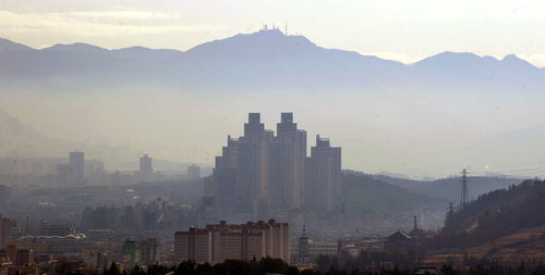 foggy view in Changwon